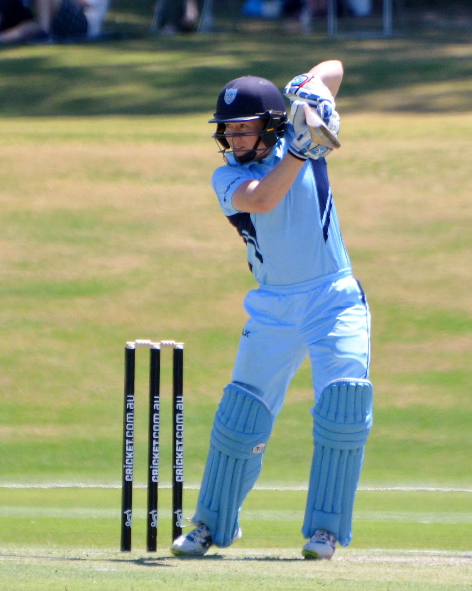 New South Wales Breakers captain Alex Blackwell on her way to a total of 11 runs against the ACT Meteors, in a WNCL top of the table clash at Murdoch University Sports Oval in Perth.